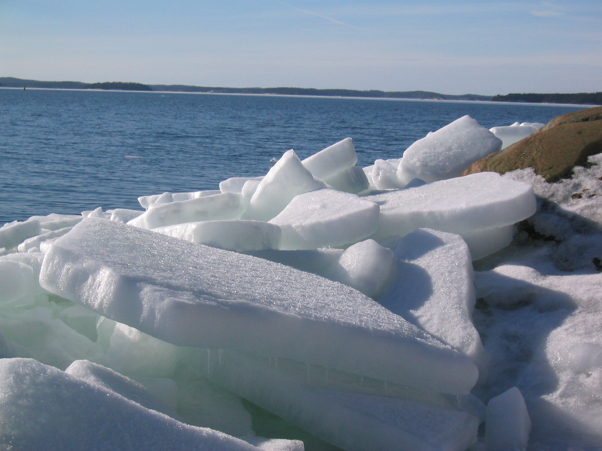 Blocks of ice on the shores of Ruissalo island, Turku.